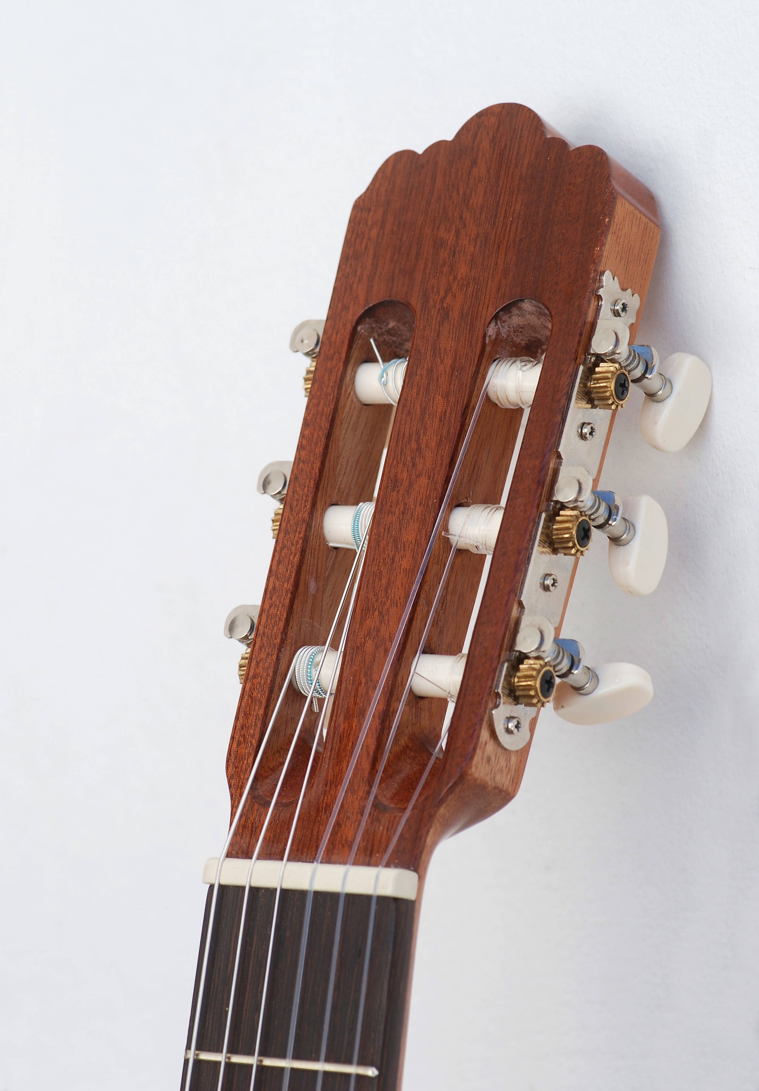 A classic guitar headstock, showing the machine heads, nut and strings.